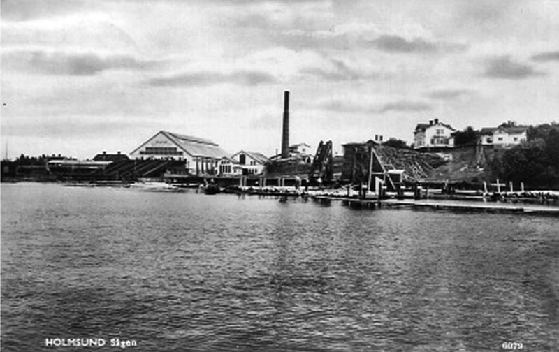 The Holmsund sawmill in the 1950's, with the office to the right.